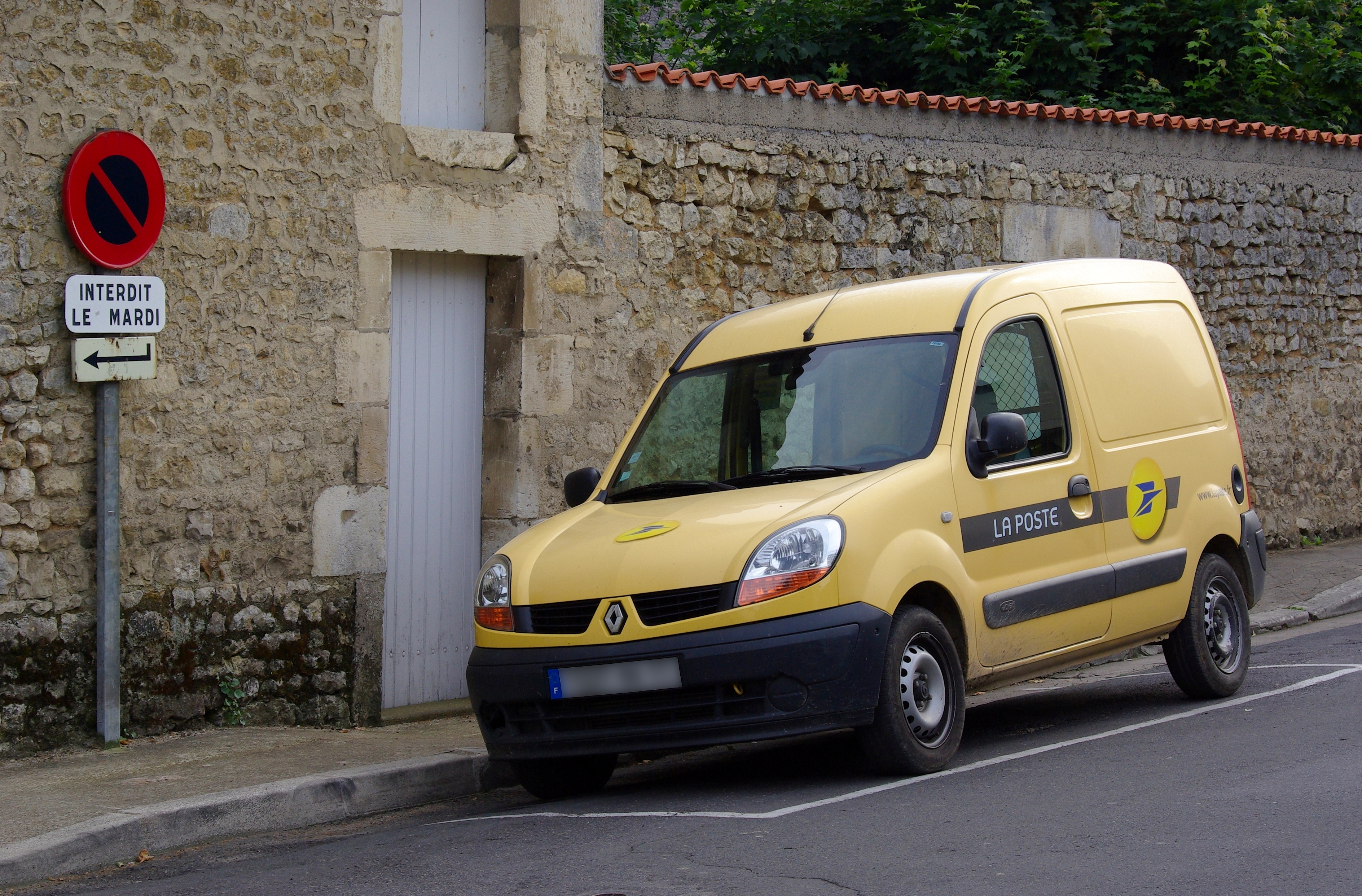 Renault Kangoo, belonging to La Poste (French mail), Civray, Vienne, France.